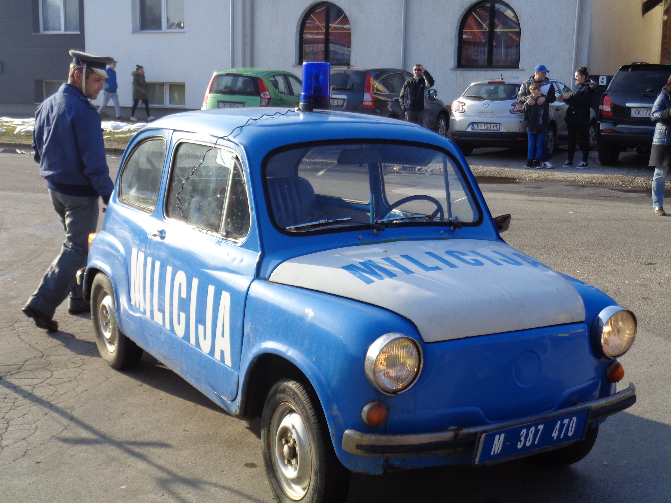 Medjimurje Carnival 2018 (Croatia) - old Yugoslav police car